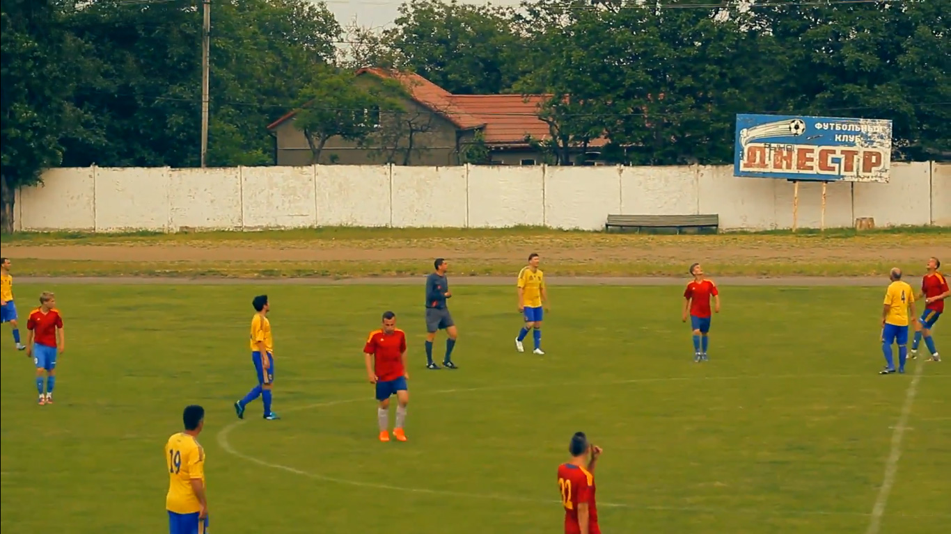 Viktor Dukov Dnister Stadium in Ovidiopol, Odesa Oblast, Ukraine